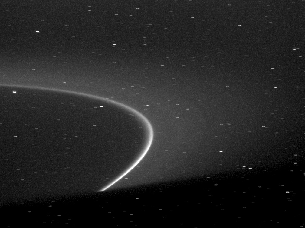 The bright arc within Saturn's G ring is shown truncated by the shadow of the planet at the bottom of this image. Although it can't be seen here, the tiny moonlet Aegaeon (formerly known as S/2008 S 1) orbits within the bright arc. See PIA11148 to learn more. This view looks toward the northern, sunlit side of the rings from about 4 degrees above the ringplane. Many background stars are visible elongated by the motion of the spacecraft during the image's exposure. The image was taken in visible light with the Cassini spacecraft narrow-angle camera on Oct. 9, 2009. The view was obtained at a distance of approximately 2.1 million kilometers (1.3 million miles) from Saturn. Image scale is 12 kilometers (7 miles) per pixel. The Cassini-Huygens mission is a cooperative project of NASA, the European Space Agency and the Italian Space Agency. The Jet Propulsion Laboratory, a division of the California Institute of Technology in Pasadena, manages the mission for NASA's Science Mission Directorate, Washington, D.C. The Cassini orbiter and its two onboard cameras were designed, developed and assembled at JPL. The imaging operations center is based at the Space Science Institute in Boulder, Colo. For more information about the Cassini-Huygens mission visit The Cassini imaging team homepage is at The original NASA image has been modified by cropping.